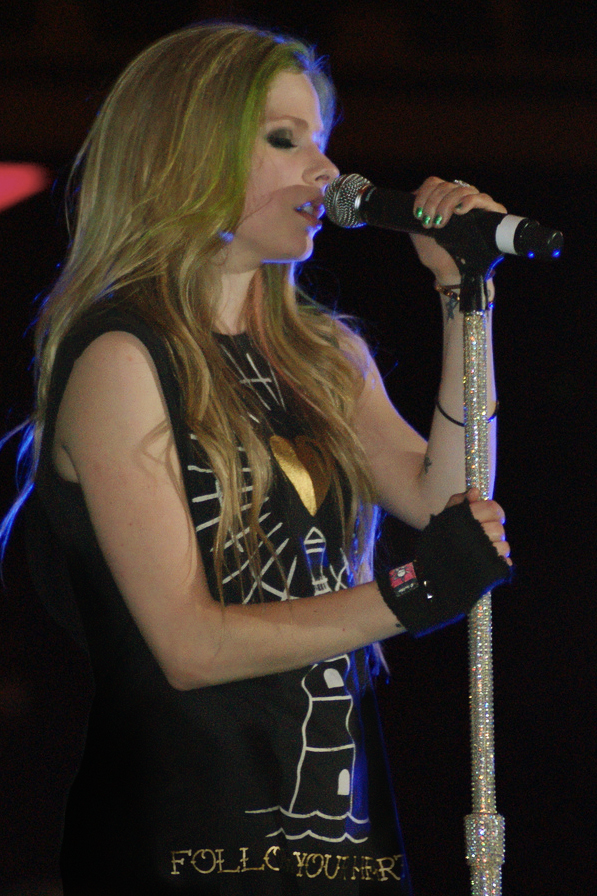 Avril Lavigne singing on stage with her eyes closed during her Black Star Tour on May 28, 2011. The venue is the Tropicana Field stadium in St. Petersburg, Florida, during the Rays/Hess Express Saturday Concert Series. Photographed on a Sony DSLR-A290.